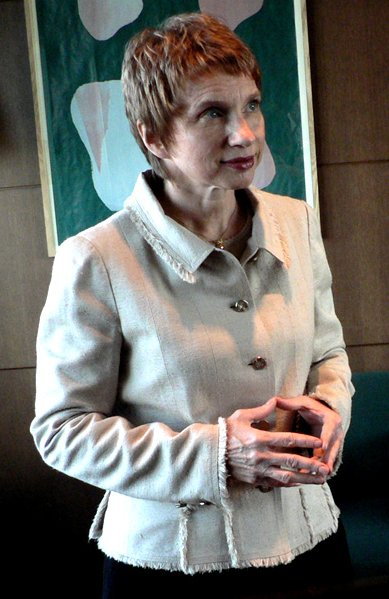 Laurence Parisot at the MEDEF headquarter